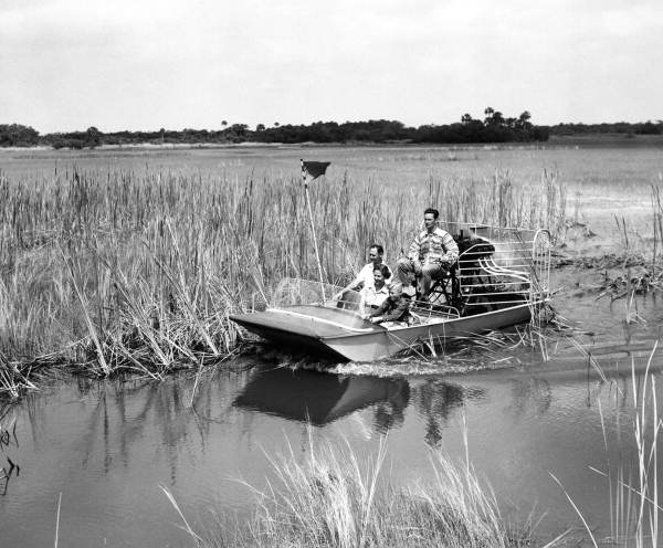 Local call number: JJS1473 Title: Landers family airboat tour in the Everglades Date: 1958 Physical descrip: 1 photoprint - b&w - 8 x 10 in. Series Title: Repository: 500 S. Bronough St., Tallahassee, FL 32399-0250 USA. Contact: 850.245.6700. Persistent URL